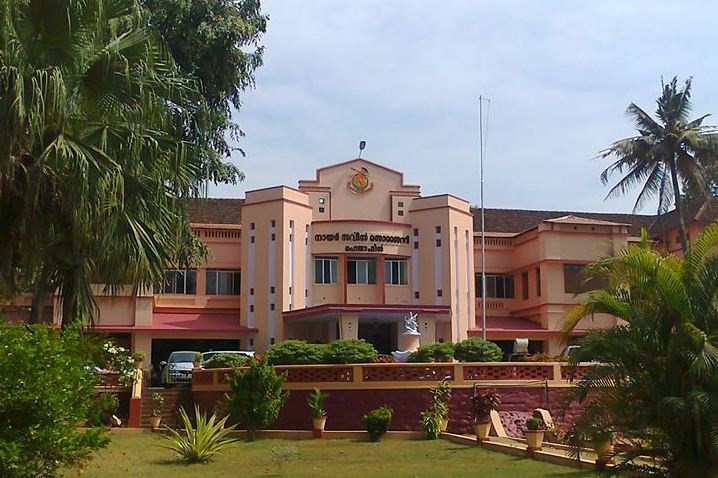 NSS Head Quarters, Perunna, Changanssery